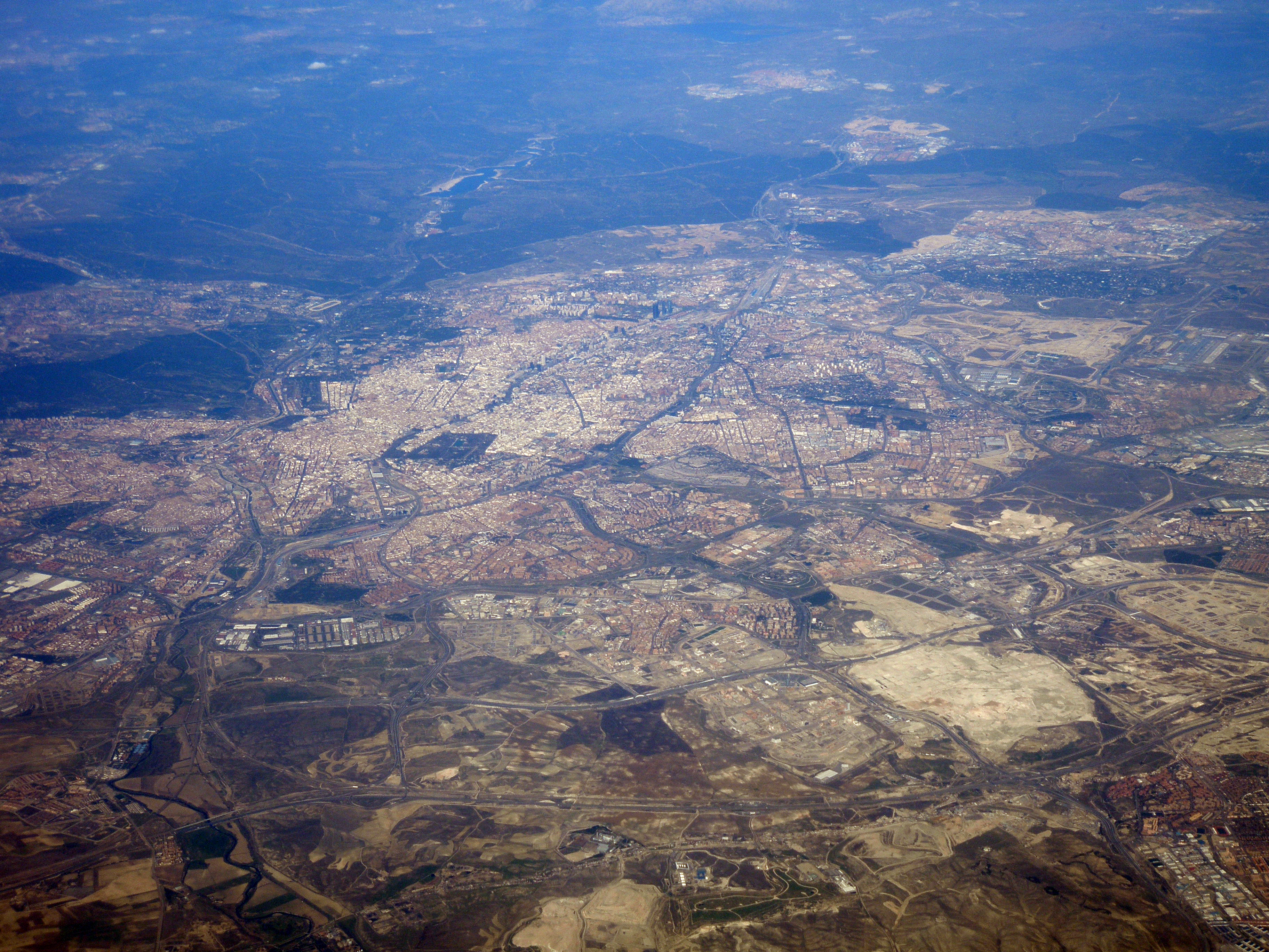 Aerial photo of Madrid and suburbs